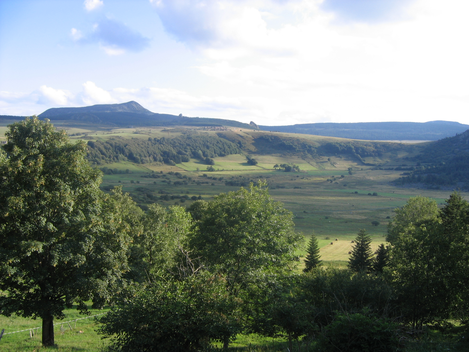 Mount Mezenc seen from the Chaudeyrolles municipality (43, France) with the Chaudeyrolles bog in the foreground